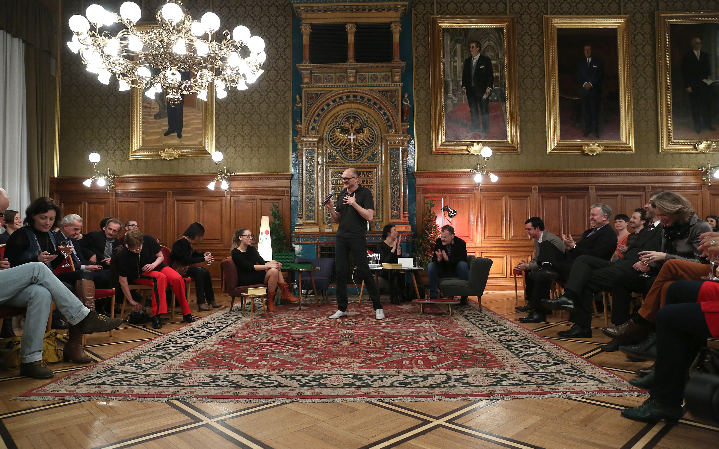 Markus Schleinzer presenting the "Abend der Nominierten" ("Evening of the Nominees") at Rathaus, Vienna on the day before the Austrian Film Awards 2014 (Vienna, Austria).